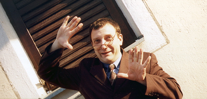 Yuppie Mime - Marko Stojanović